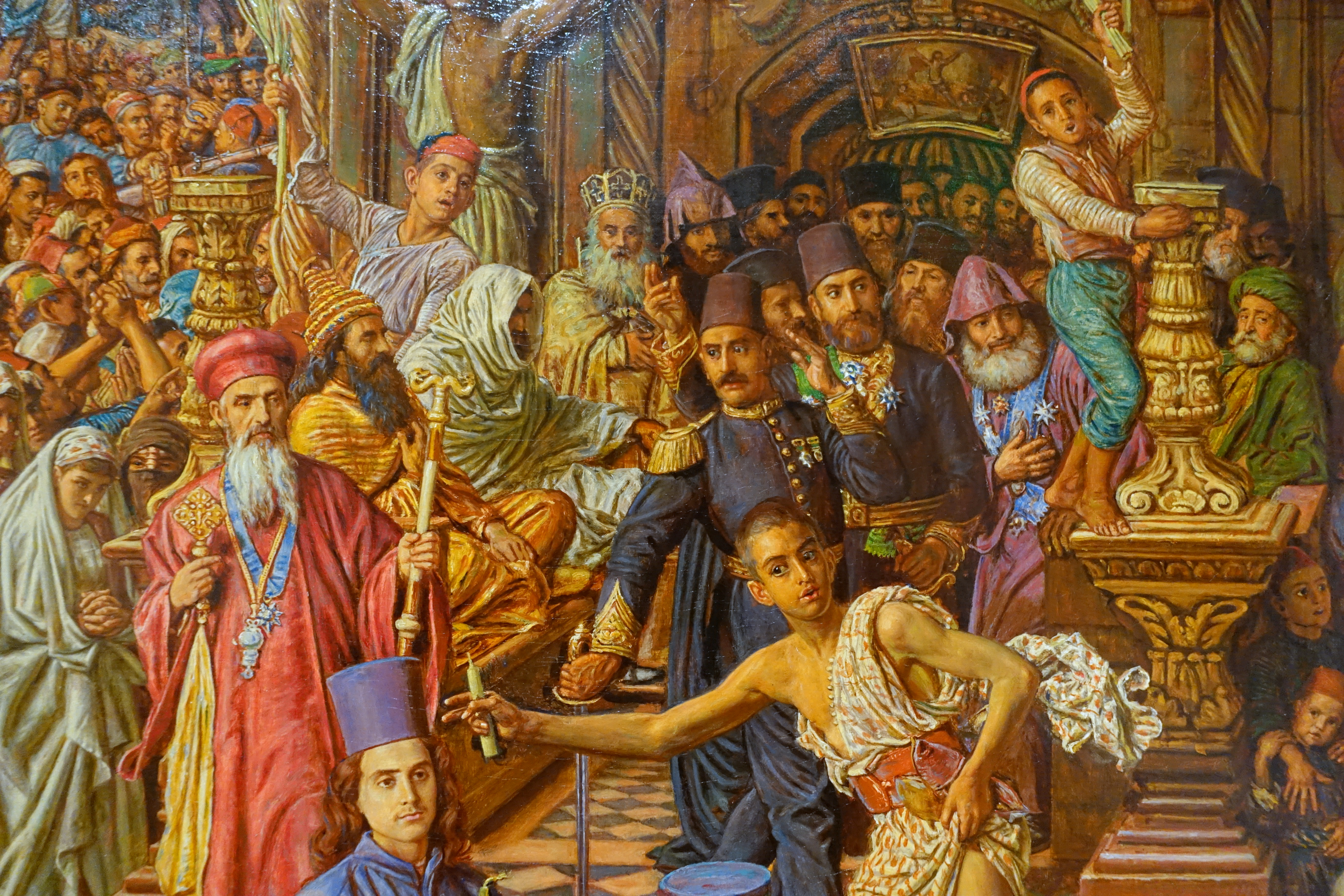 Exhibit in the Fogg Art Museum, Harvard University, Cambridge, Massachusetts, USA. This artwork is in the public domain because the artist died more than 70 years ago.